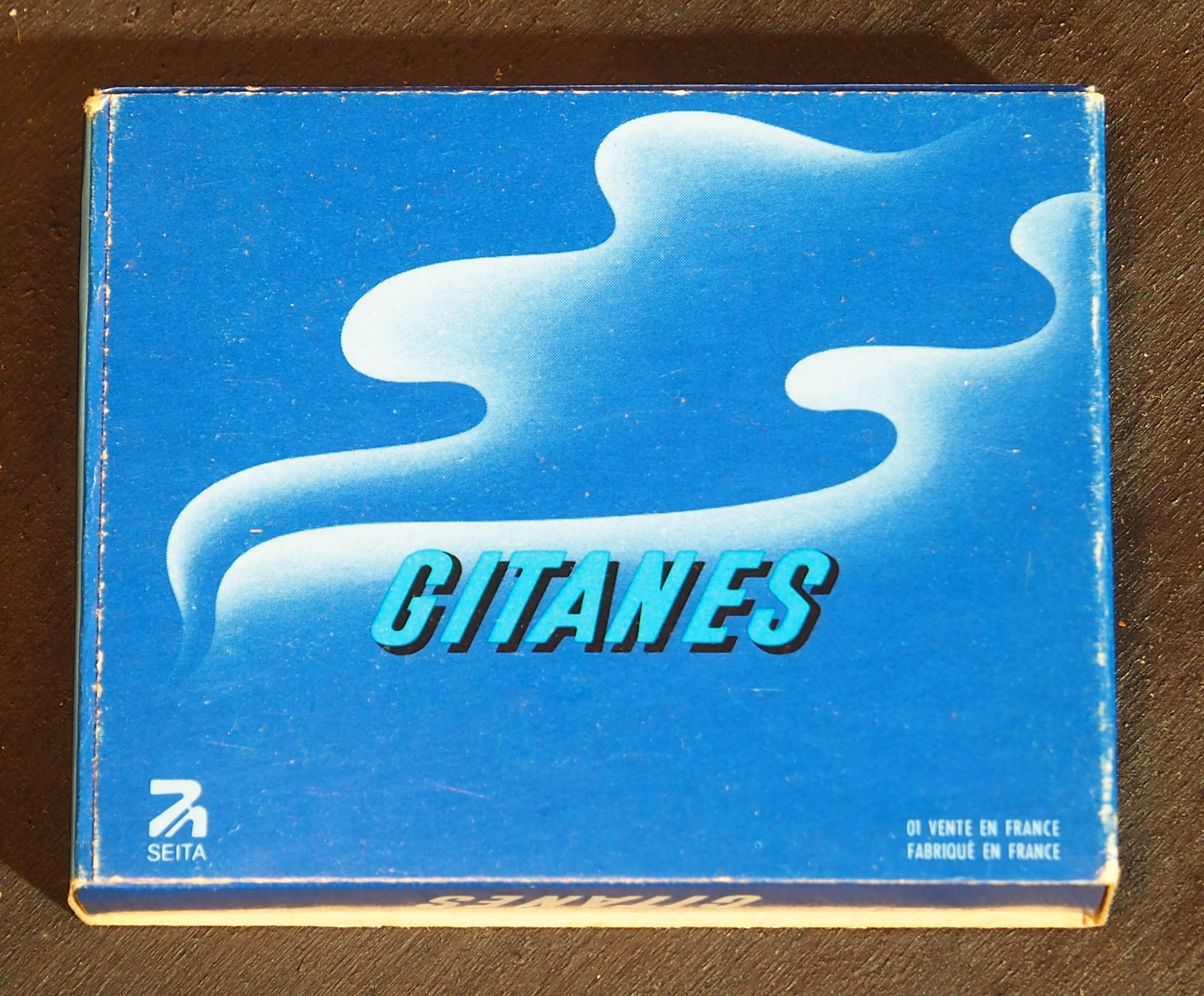 Old product not sold anymore!